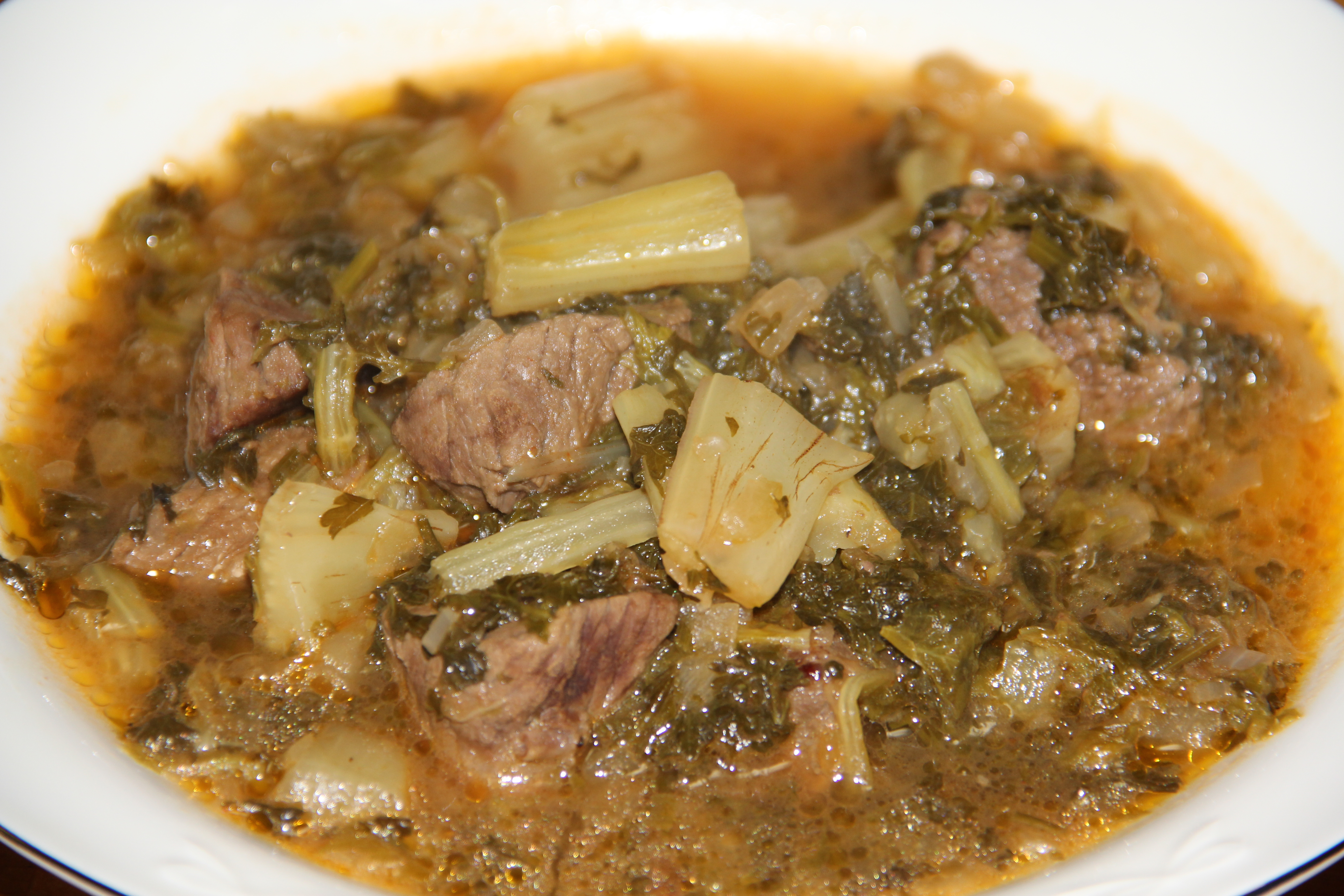 Making Khoresh karafs